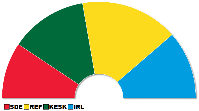 Distribution of seats in the Estonian parliament 2011-2015 Estonian Reform Party (REF) : 33 seats Estonian Centre Party (KESK) : 26 seats Pro Patria and Res Publica Union (IRL ): 23 seats Social Democratic Party (SDE) : 19 seats